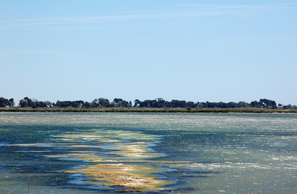 Salt evaporation pond, Aigues-Mortes, Camargue, France